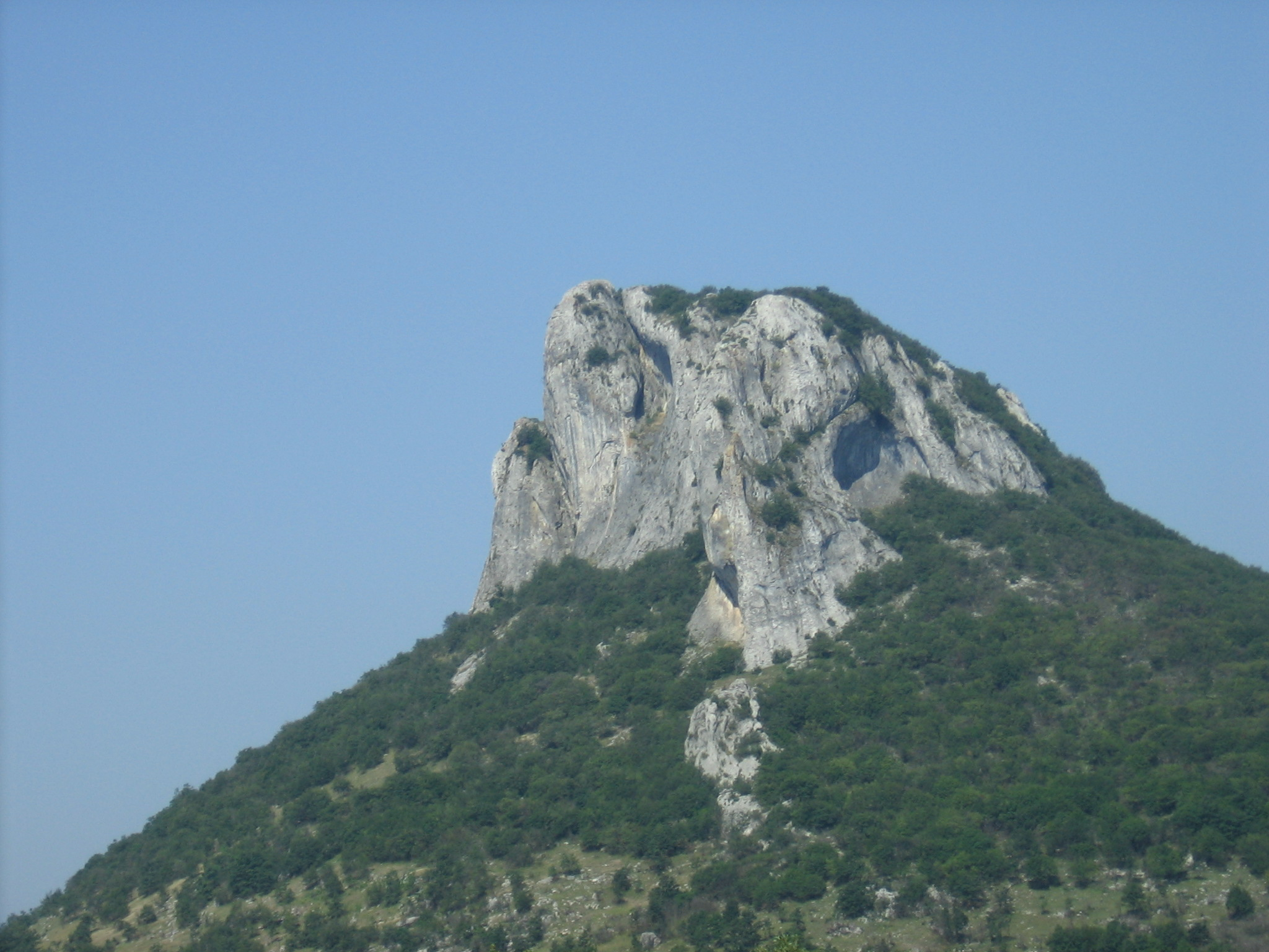 Zir hill.